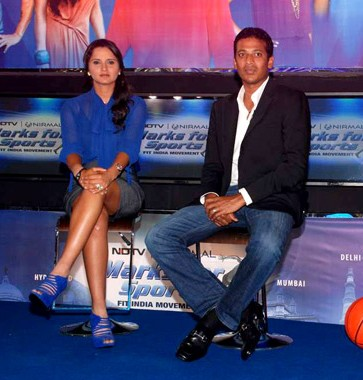 Sania Mirza, Mahesh Bhupathi, Bipasha Basu at the NDTV Marks for Sports event